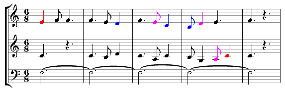 Description: Section of Perotins Alleluya Source: Perotin, in modern notation by Boris Fernbacher Photographer / artist: Boris Fernbacher 09:42, 21 Feb 2006 (UTC) License of the music image Short excerpt quoted by quotation rights.